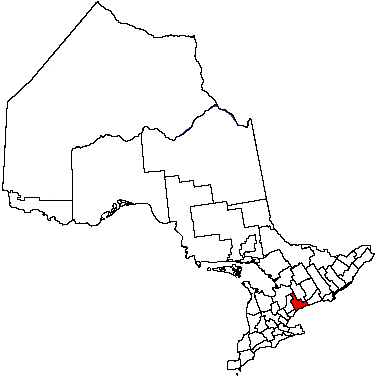 Durham Regional Municipality, Ontario